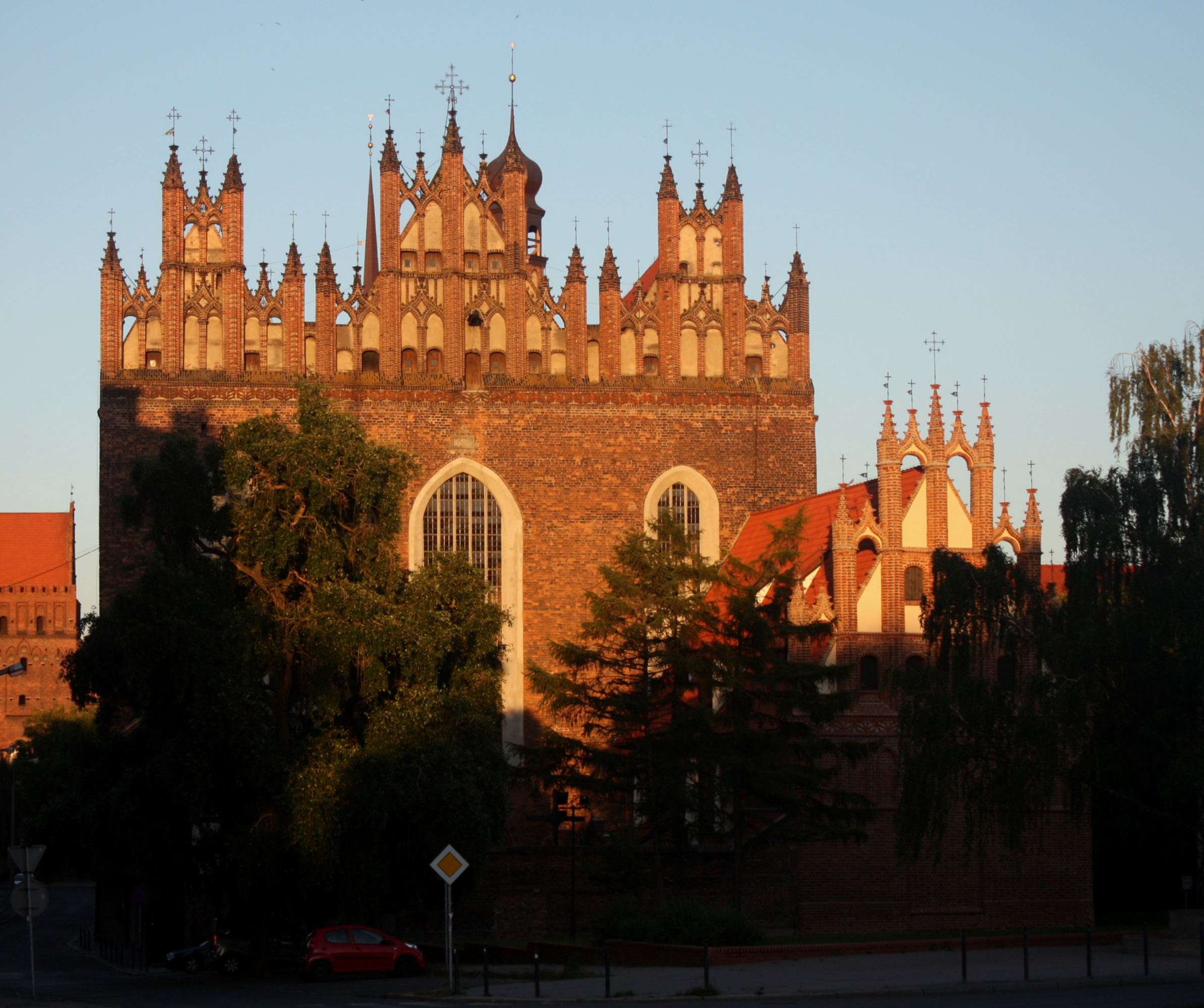 Gdańsk, Church of Saint Trinity